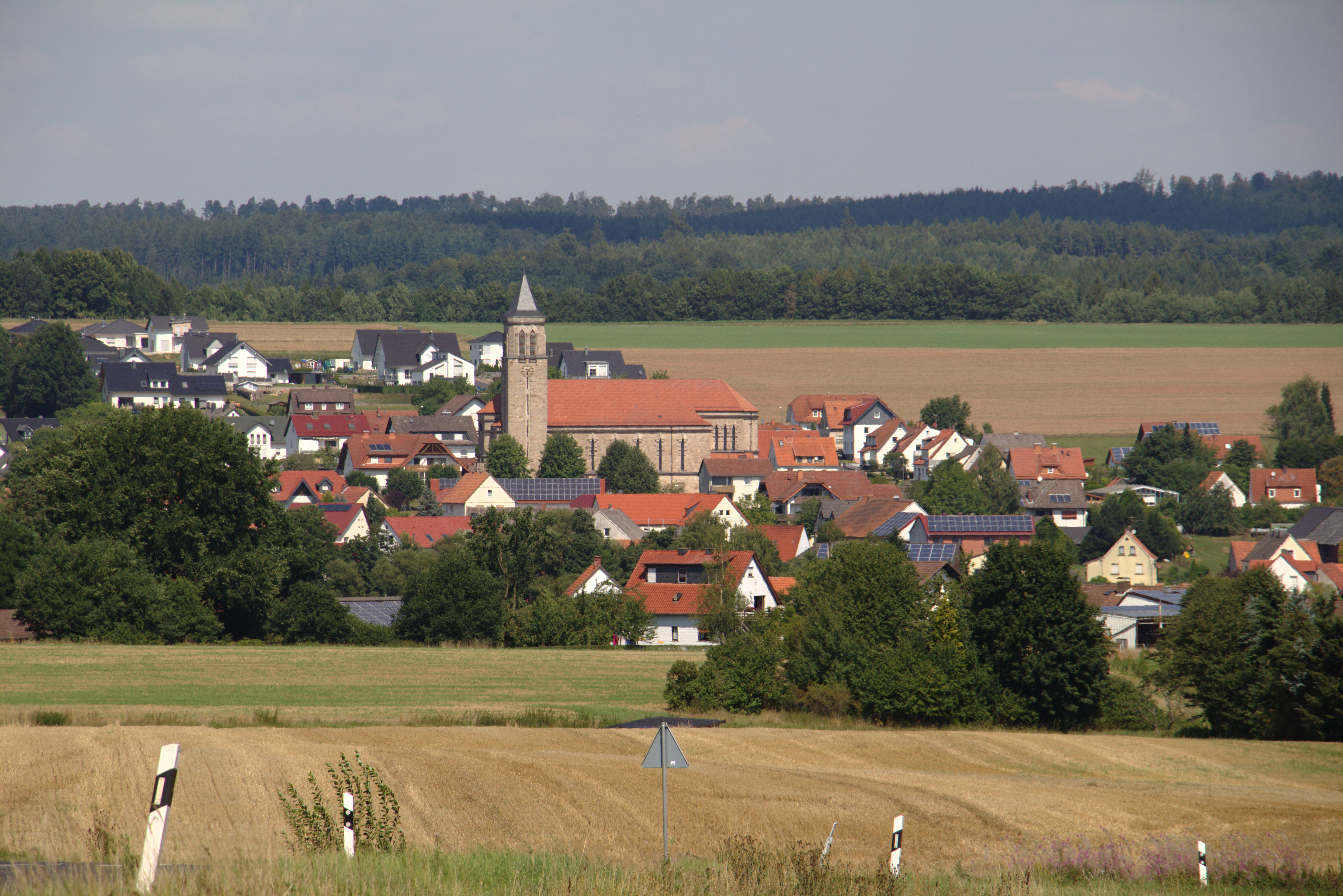 Rommerz / Church (seen from south) in Neuhof, Hesse, Germany